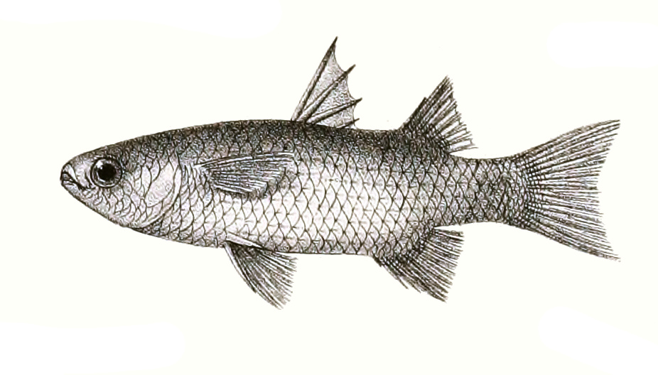 The species names / identity need verification. The original plates showed the fishes facing right and have been flipped here. Fistularia serrata (erratum), printed: Mugil oligolepis.